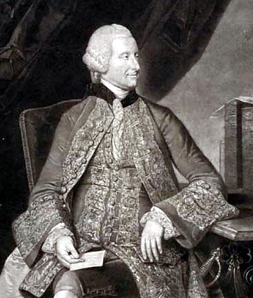 John Montagu, 4. Earl of Sandwich (1718–1792), British diplomat and statesman